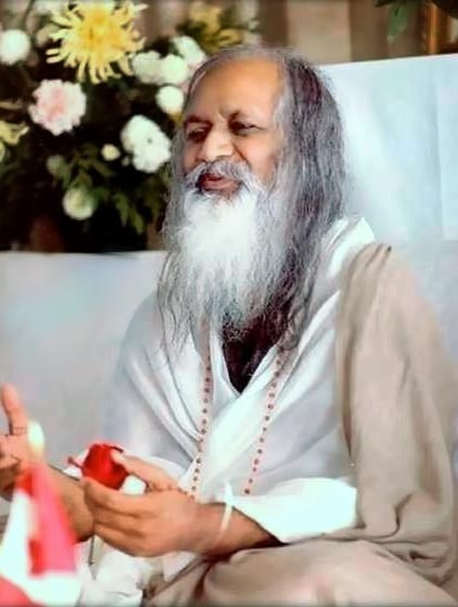 Maharishi Mahesh Yogi in Huntsville in January 1978